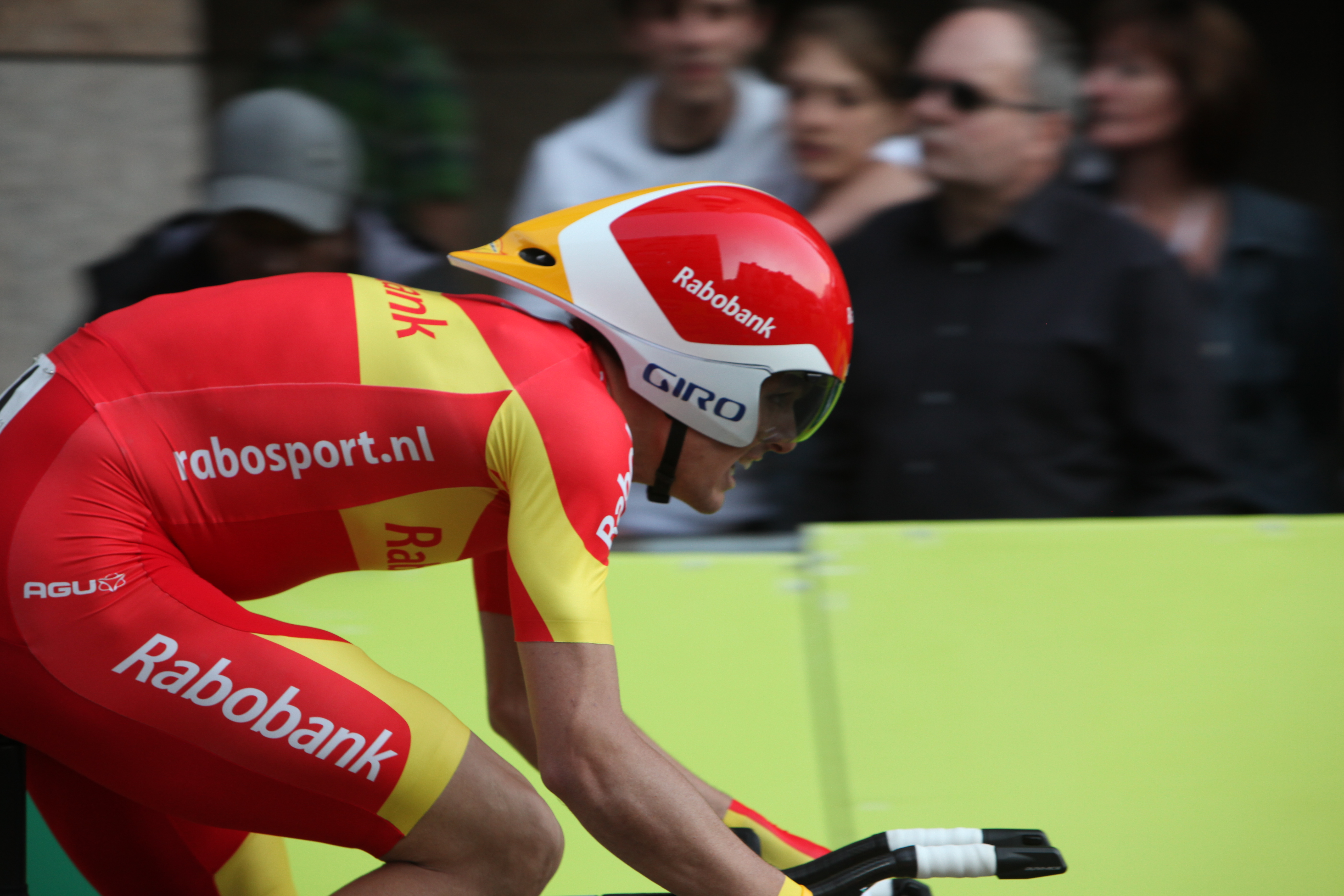 Luis Leon Sanchez at the prologue of the Tour de Romandie 2011